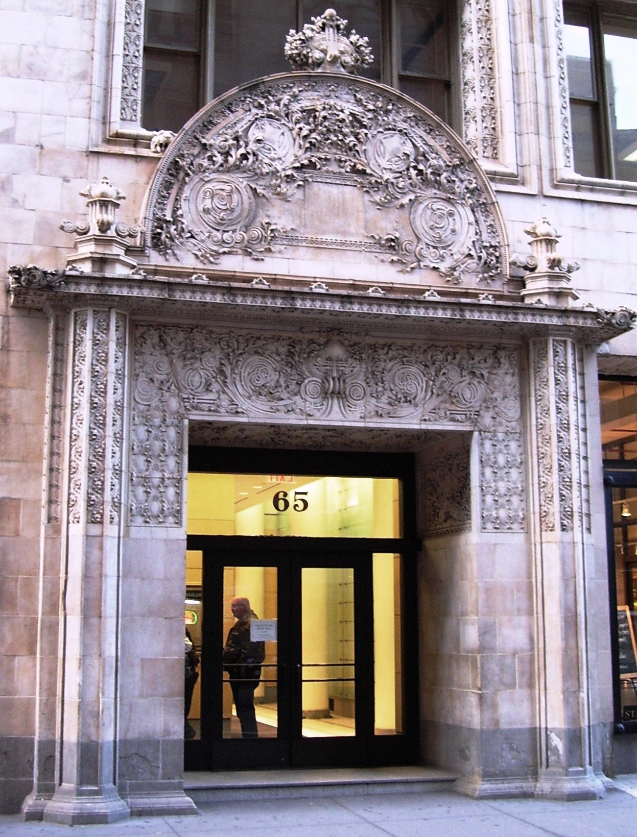 The entrance to the Bayard-Condict Building at 65 Bleecker Street between Broadway and Lafayette Street in the NoHo district of lower Manhattan, New York City, designed by Louis Sullivan (his only work in NYC) and built 1897-1899. A NYC landmark since 1975. (Source: Guide to NYC Landmarks (4th ed.)